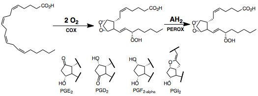 COX2 arachidonic acid